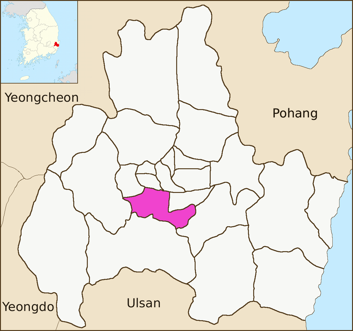 Map of Hwangnam-dong, an administrative division of Gyeongju, South Korea. Created by User:Visviva, redrawn by Kokiri